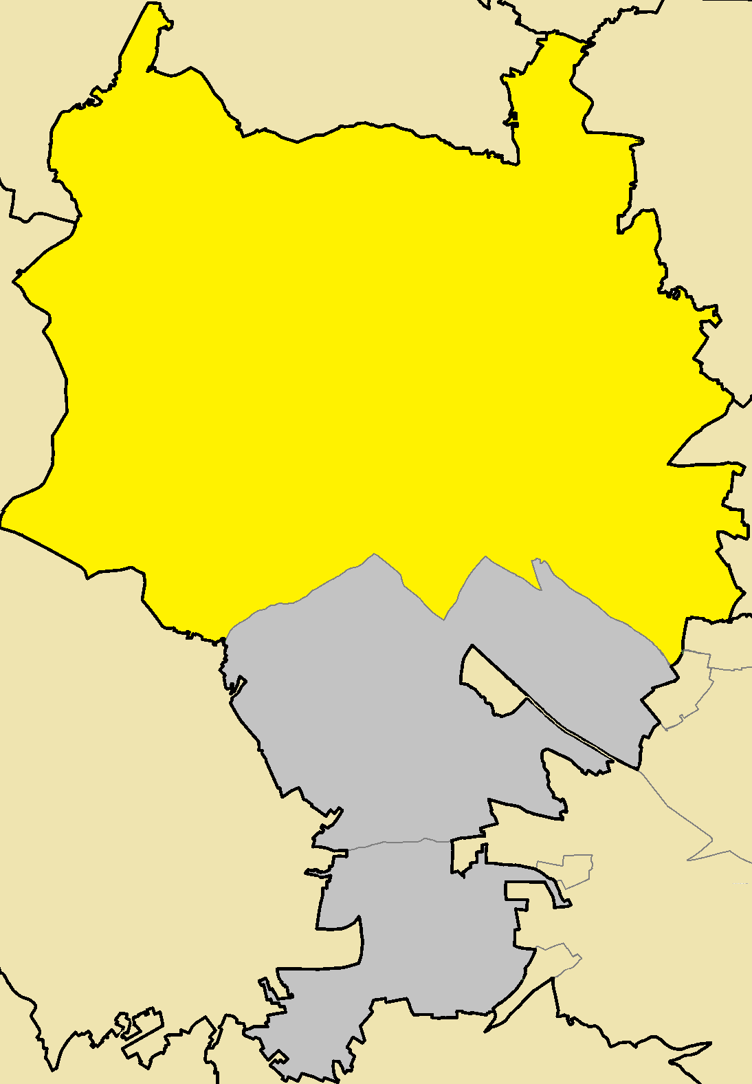 Apostolos Loukas in Aradippou Municipality.